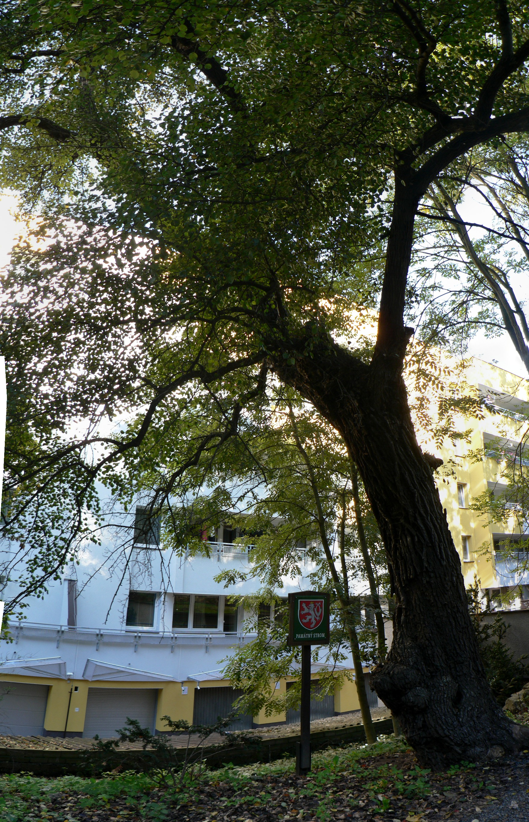 Protected tree (pear) at Vysoka cesta in Prague 4 - Branik.